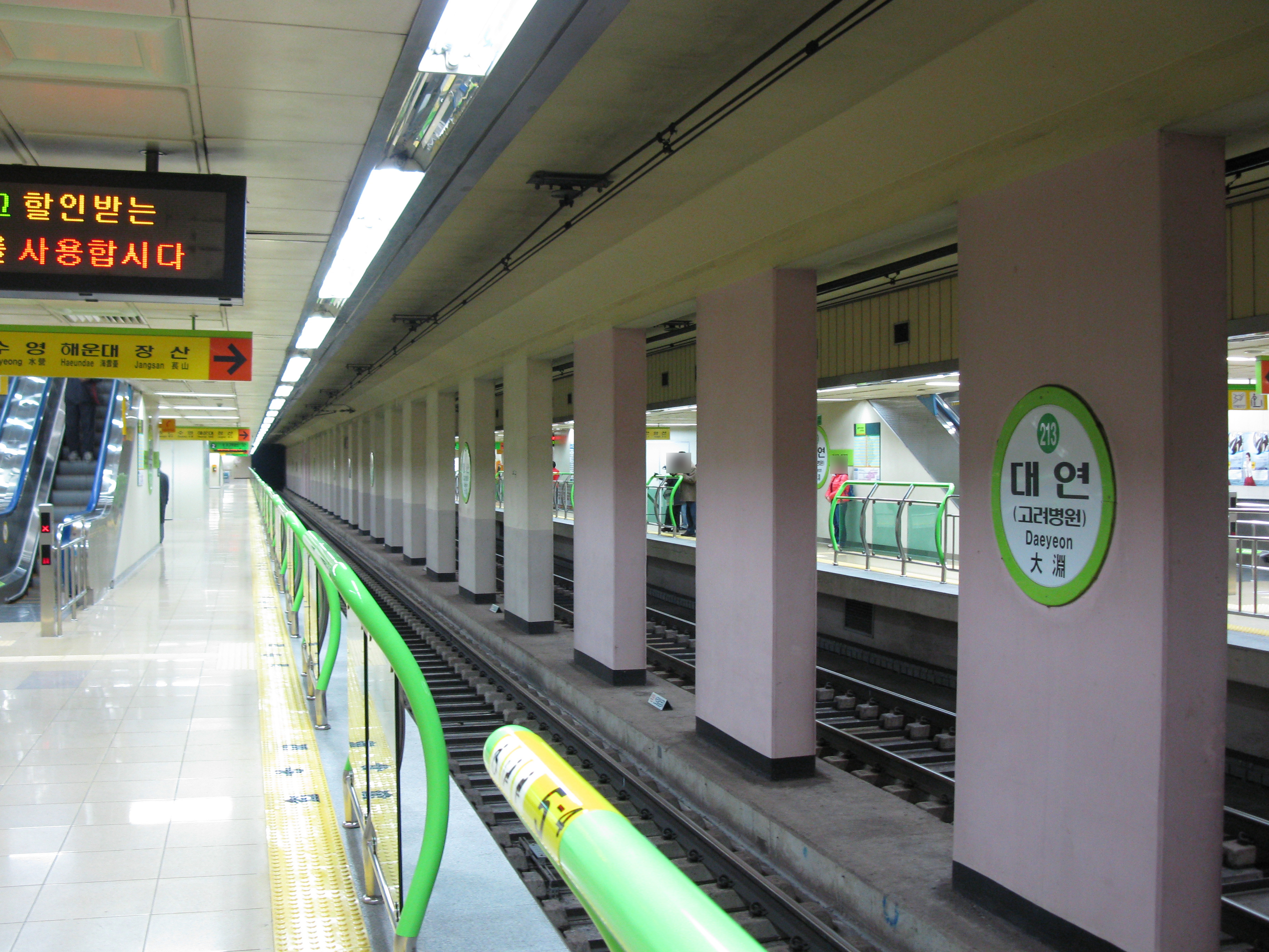 Daeyeon Station platform (Busan Subway Line 2)